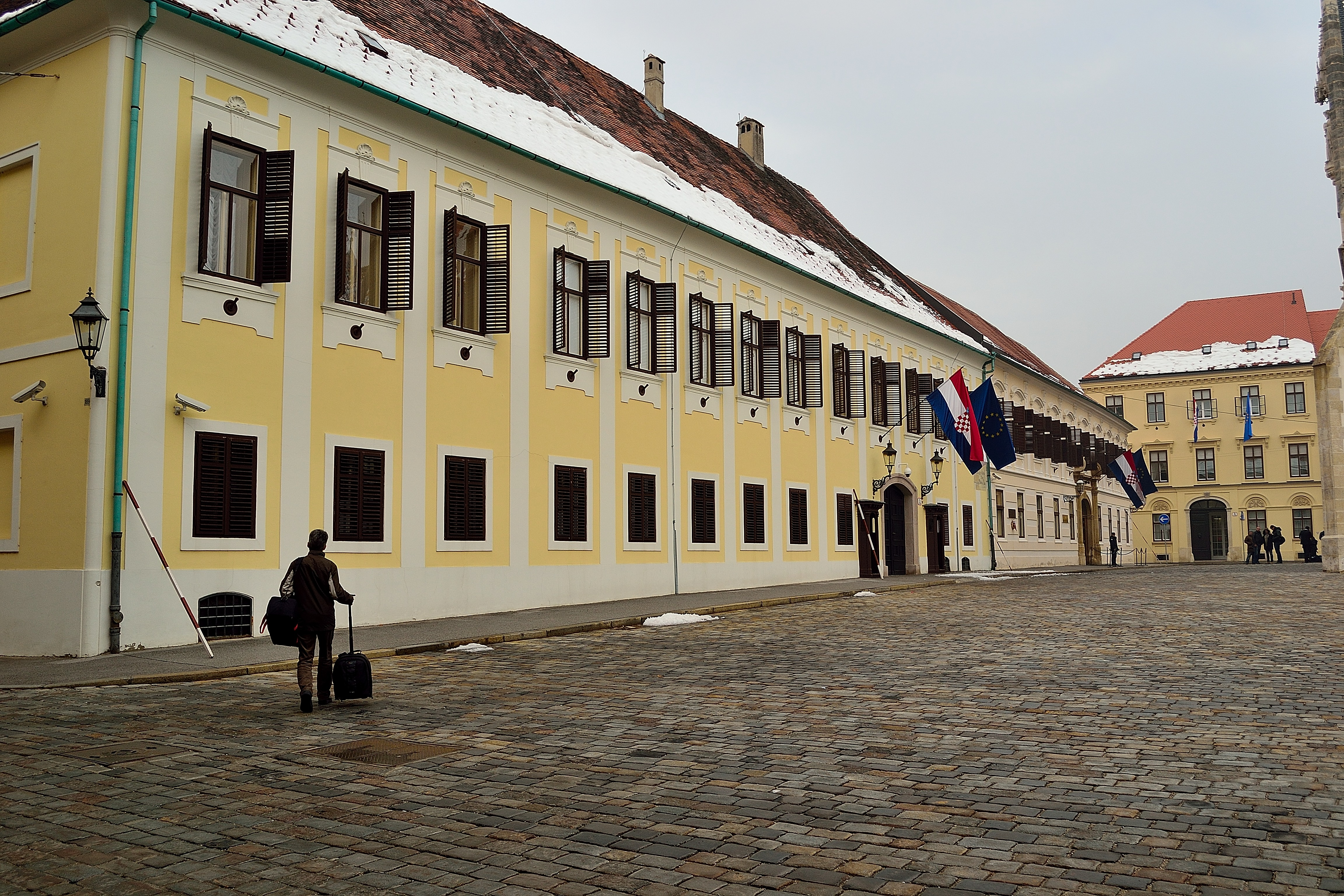 Banski dvori, St. Marko Square, Zagreb